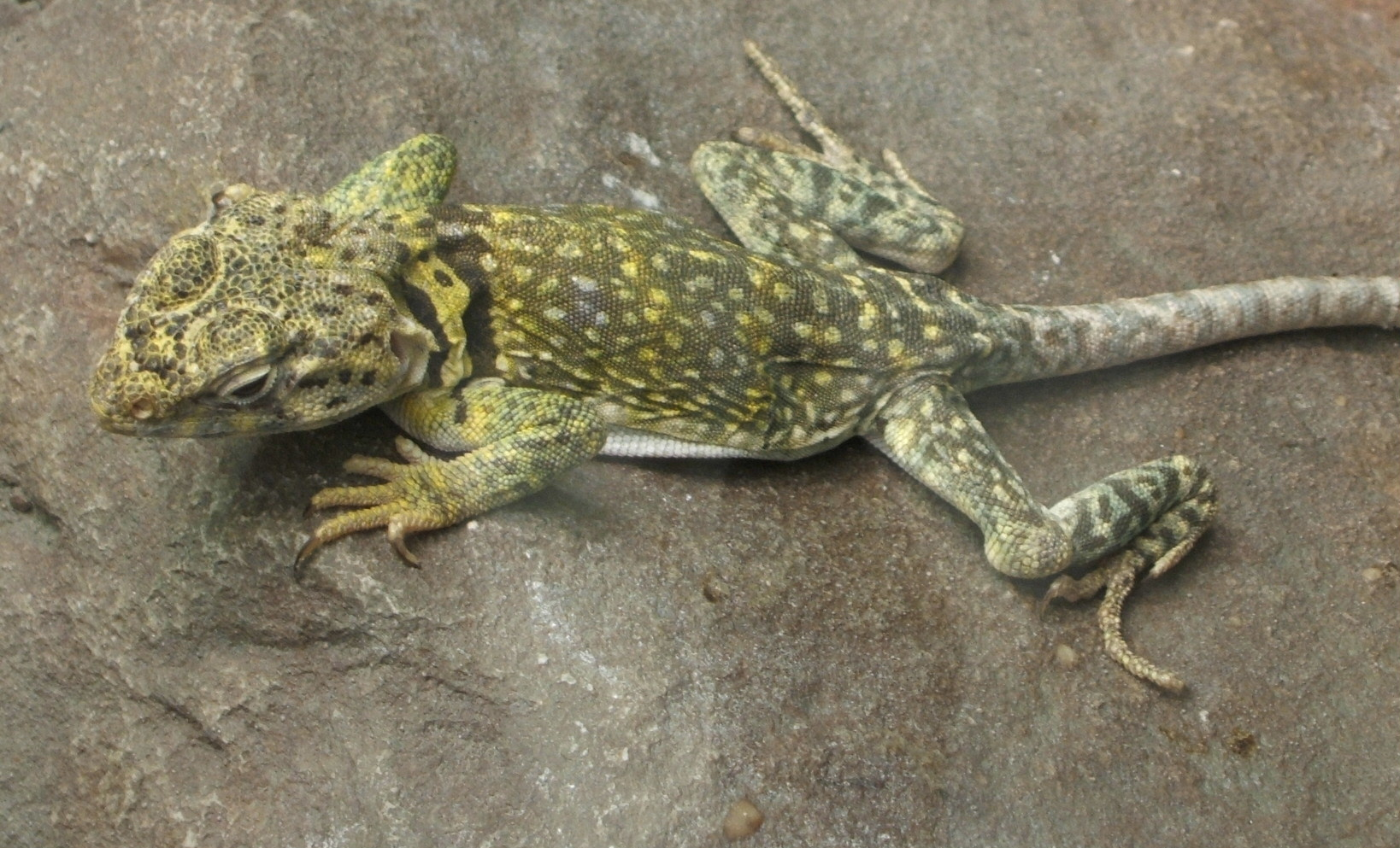 Collared lizard (Crotaphytus collaris) in Boston Museum of Science